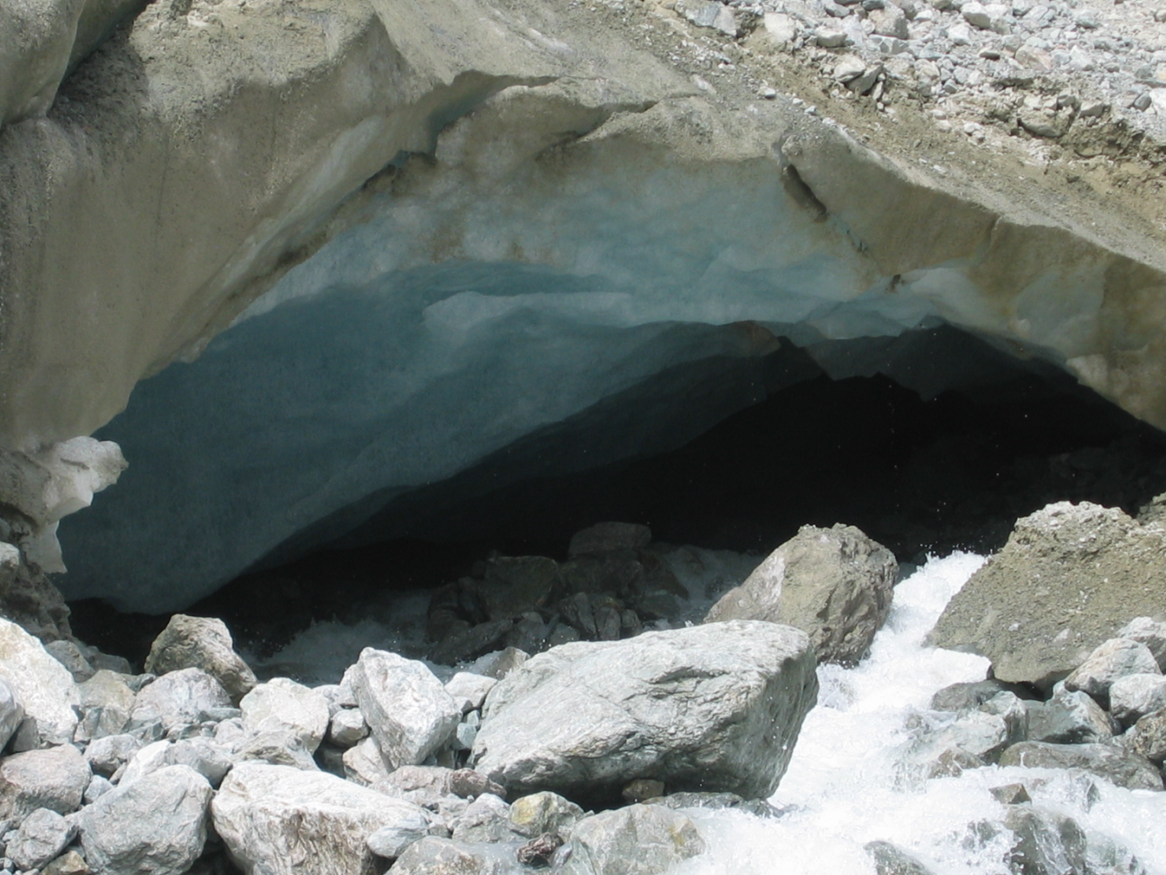 The river of the "Glacier Blanc" (France) on the frontside of the glacier.